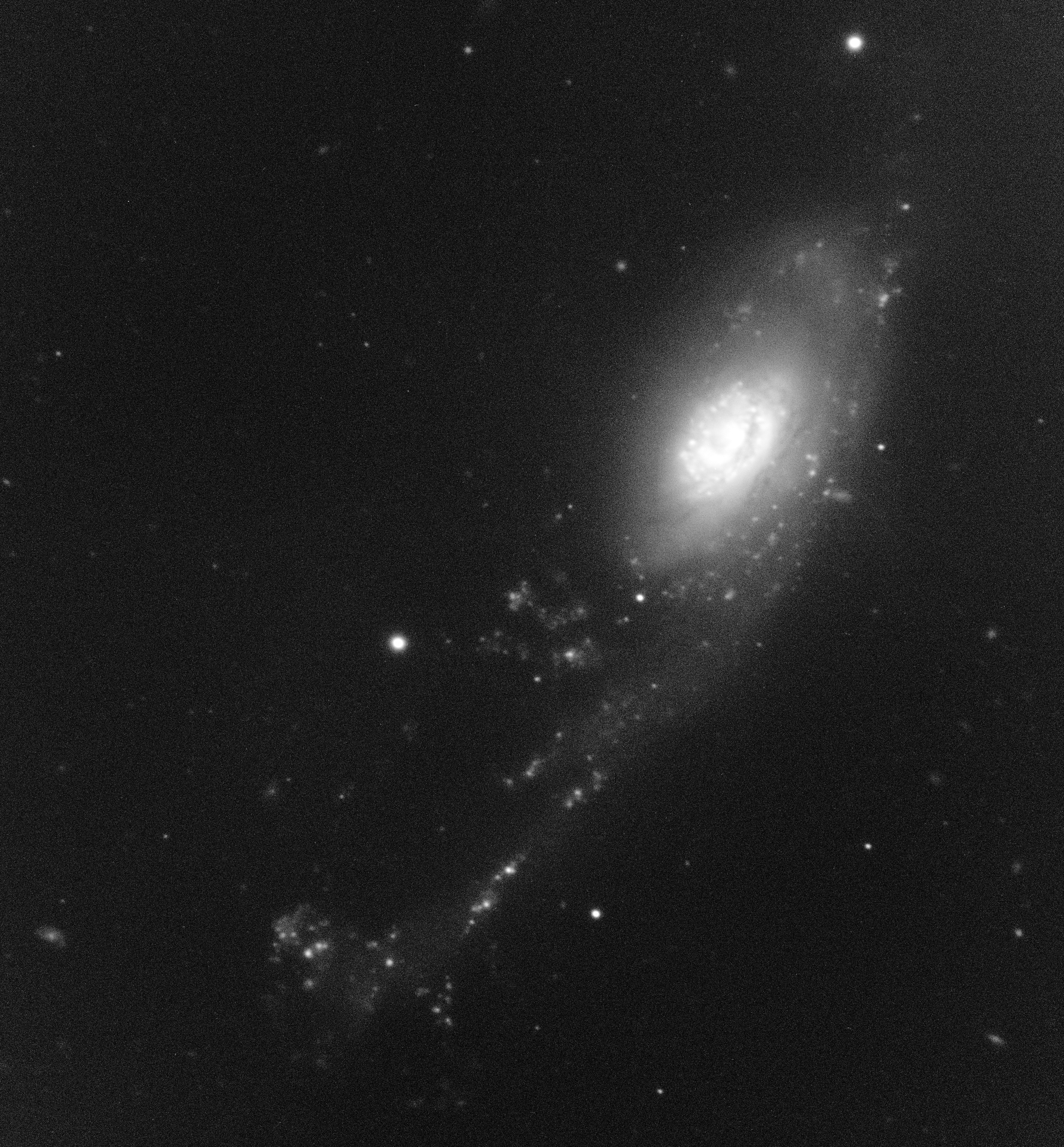 The largest member of the galaxy group known as Roberts Quartet is NGC 92, a spiral Sa galaxy with an unusual appearance. One of its arms, about 100,000 light-years long, has been distorted by interactions and contains a large quantity of dust. Using this H-alpha image obtained with FORS2 on the VLT, astronomers were able to study the properties of regions of active star formation ("HII regions"). They found more than 200 of such regions in NGC 92, with a size between 500 and 1,500 light-years. ID: phot-34b-05 Press: 34/05 Object: NGC 92 Instrument: FORS2 Size: 1789x1929 Credit: ESO